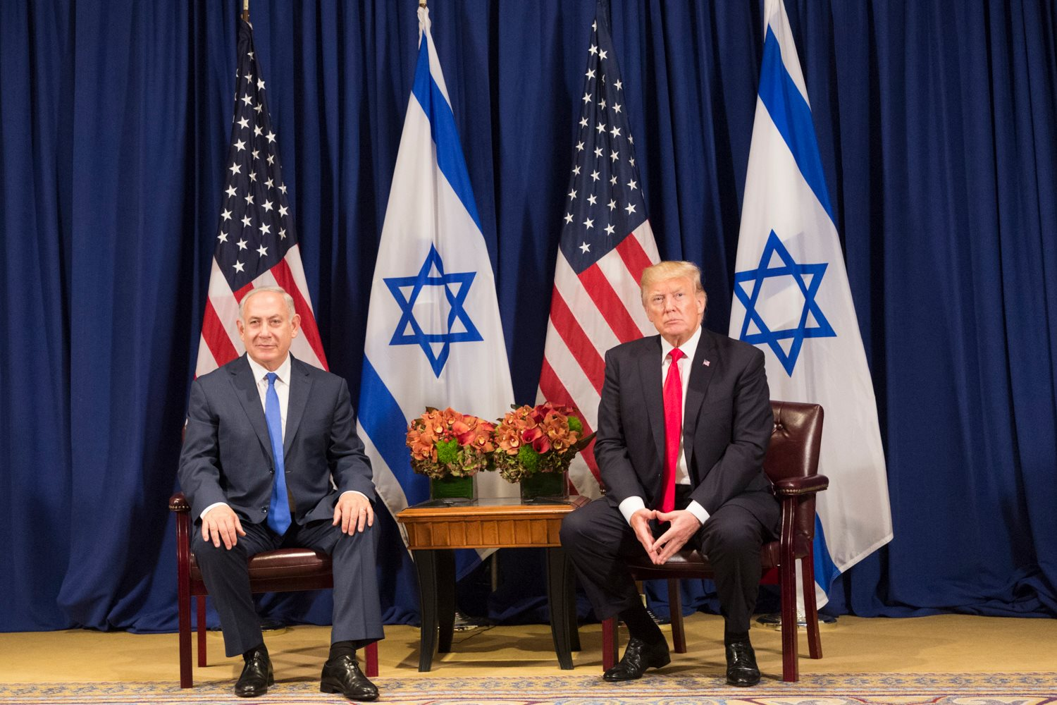 President Donald J. Trump and Prime Minister Benjamin Netanyahu of Israel at the United Nations General Assembly (Official White House Photo by Shealah Craighead)